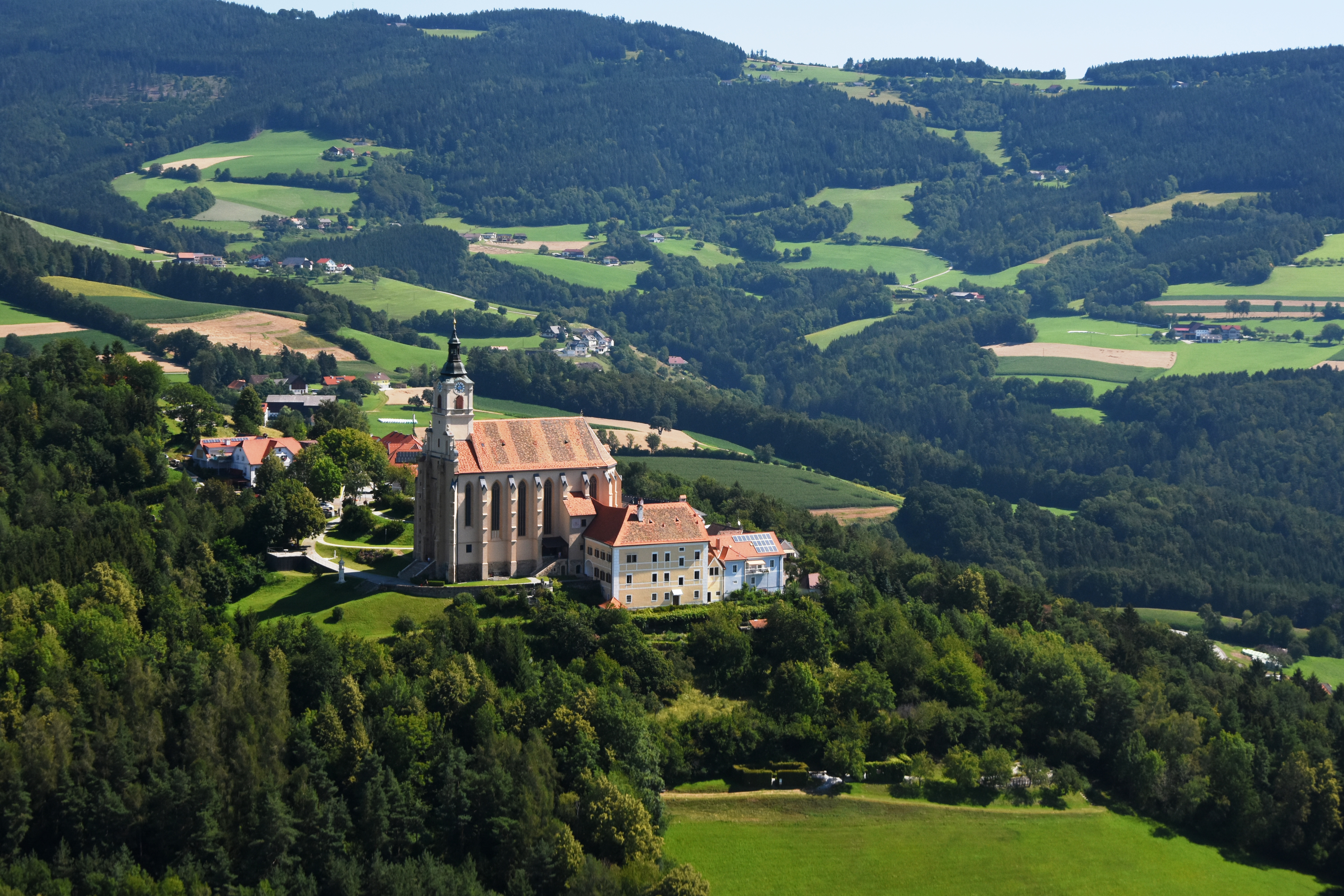 Maria Pöllauberg